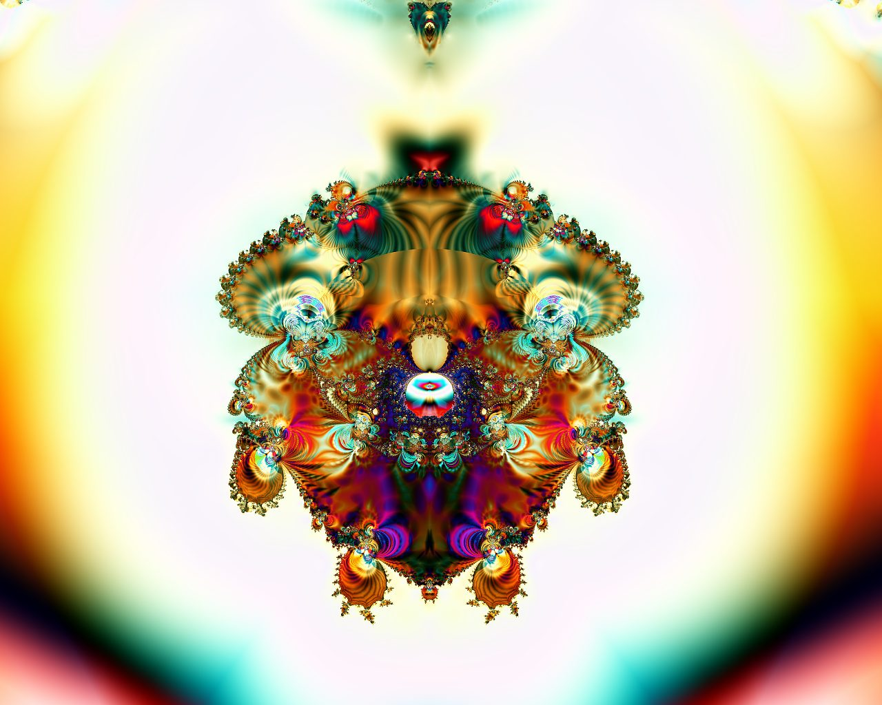 Fractal made using Sterling2 program